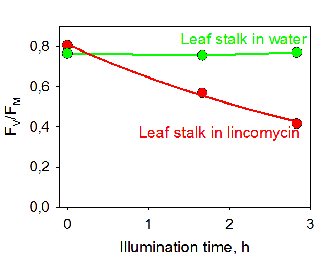 Author: Esa Tyystjärvi